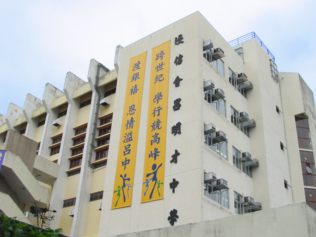 Baptist Lui Ming Choi Secondary School, Sha Tin, Hong Kong